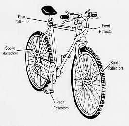 Bike diagram with reflectors